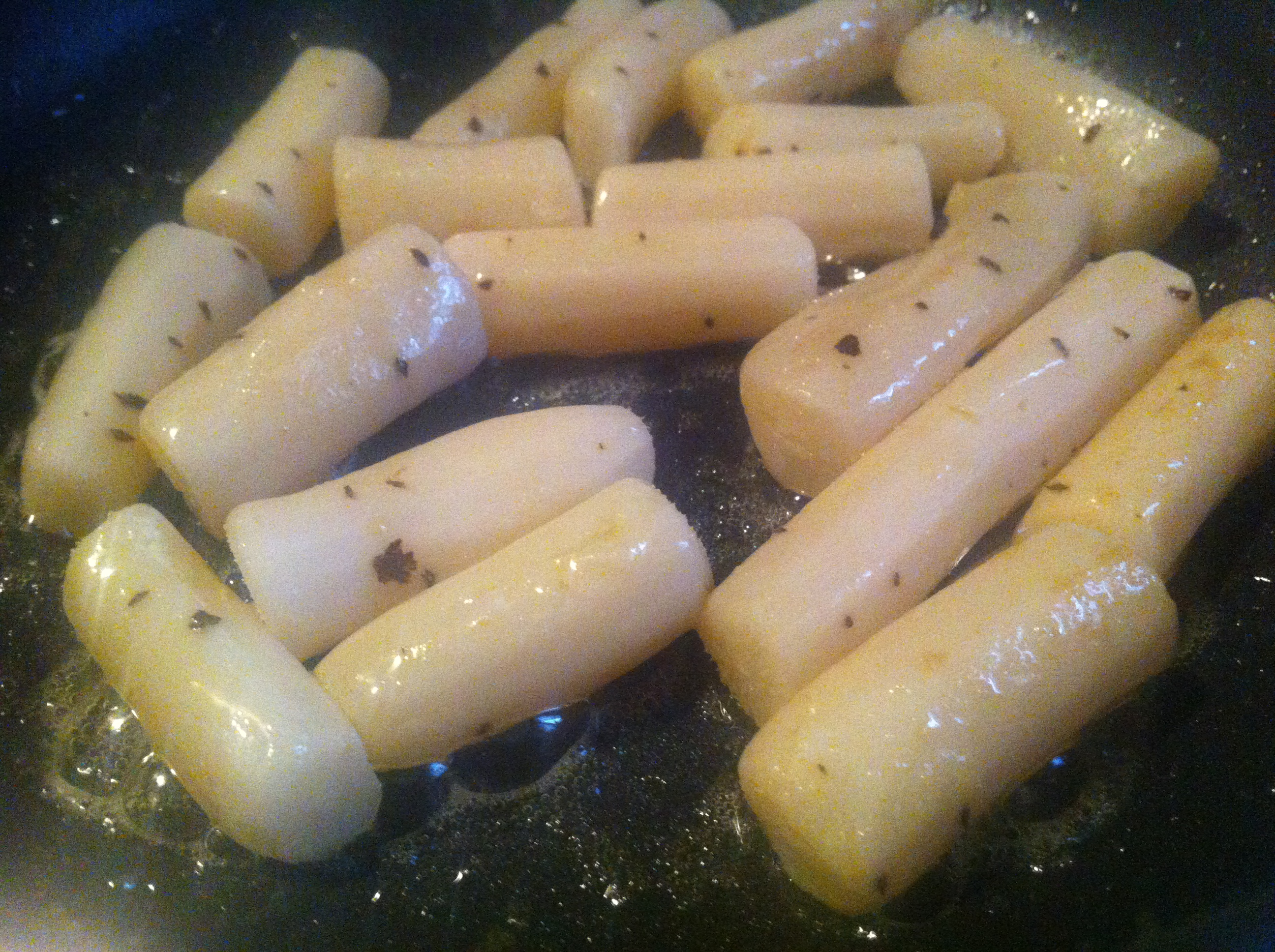 salsify.